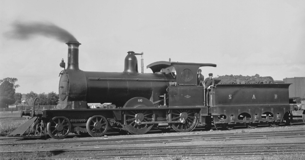 Half-plate glass negative of Q class locomotive No.86. Q class locomotive No.86 was built by Dubs & Co., of Glasgow, Scotland. It entered service in 1885 and was condemned in 1933.